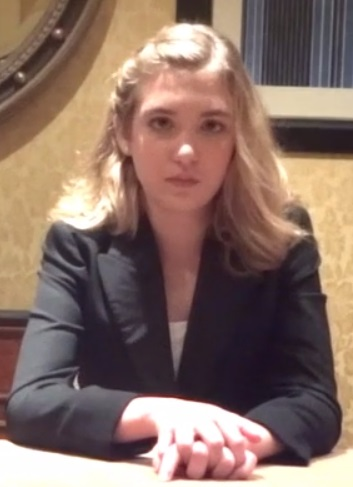 Canadian actress Sophie Nélisse interviewed about The Book Thief by .